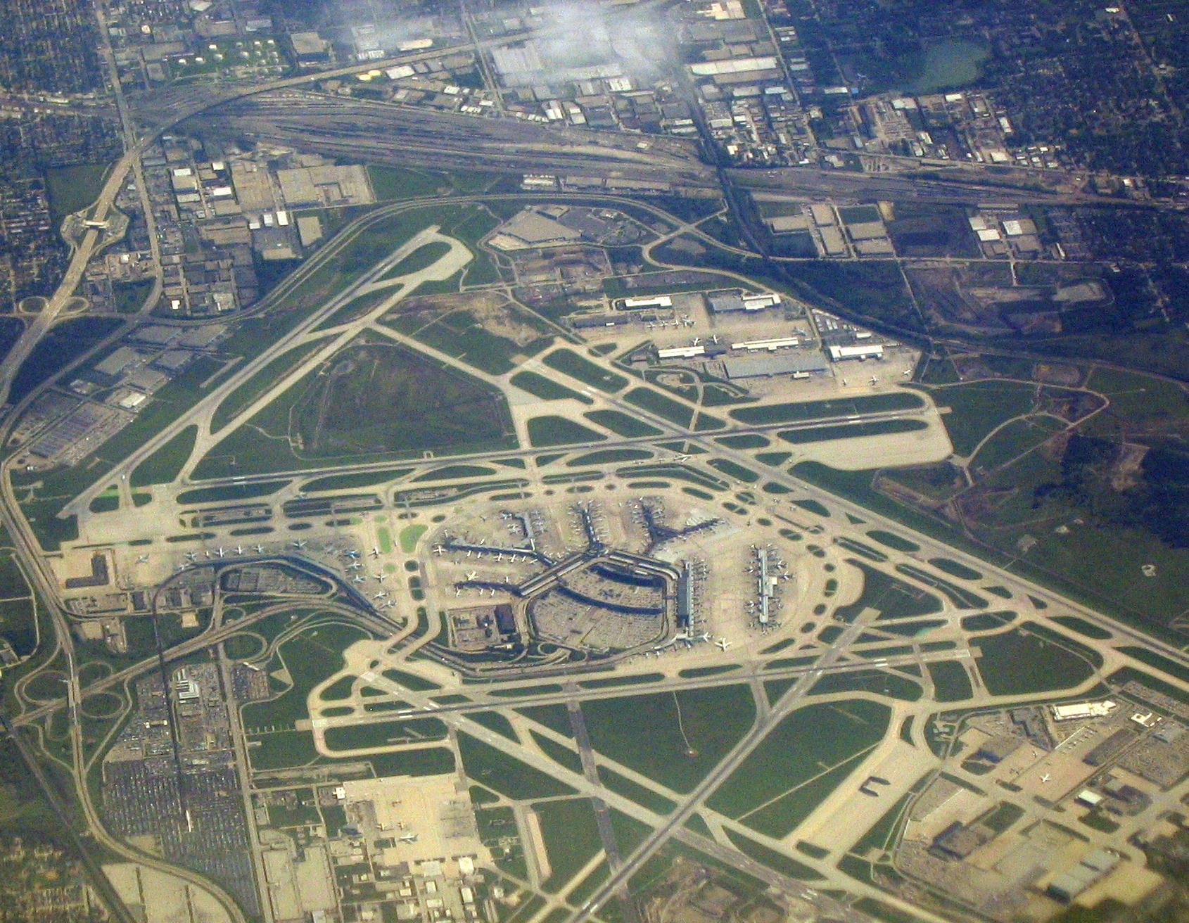 O'Hare International, Chicago, IL.